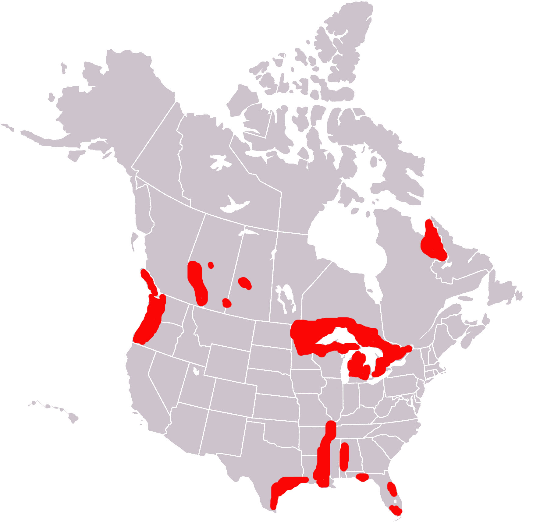 Distribution of Fascioloides magna in North America (according to Pybus 2001)